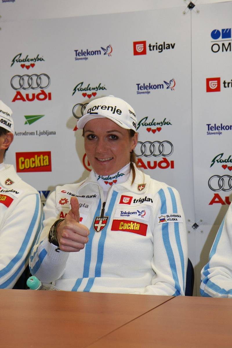 Petra Majdič 2009 press conference